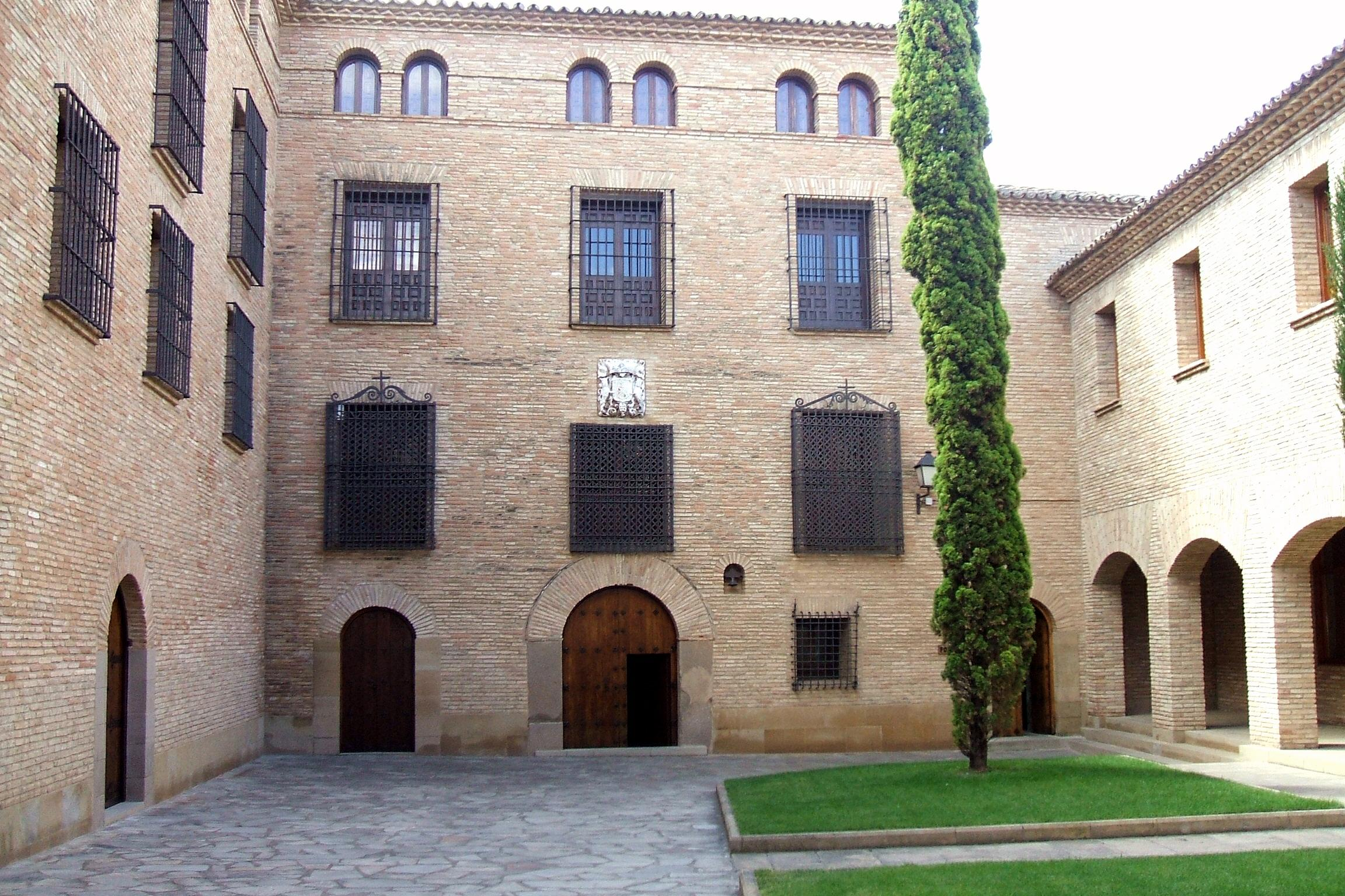 Monasterio femenino trapense (Cistercienses OCSO) de Santa María de la Caridad, en Tulebras (Navarra, España)